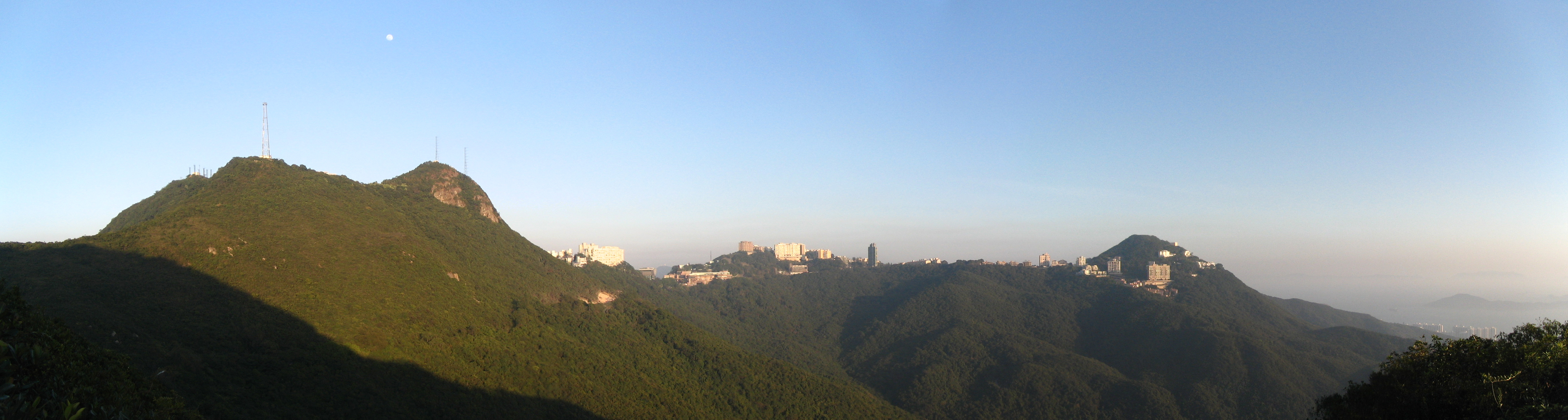 Panoramic photo of Victoria Peak, Mount Gough and Mount Kellett, combined from 2205707393, 2205708261, 2205709231, 2205710171, 2206499814,2206500722 and 2205712715